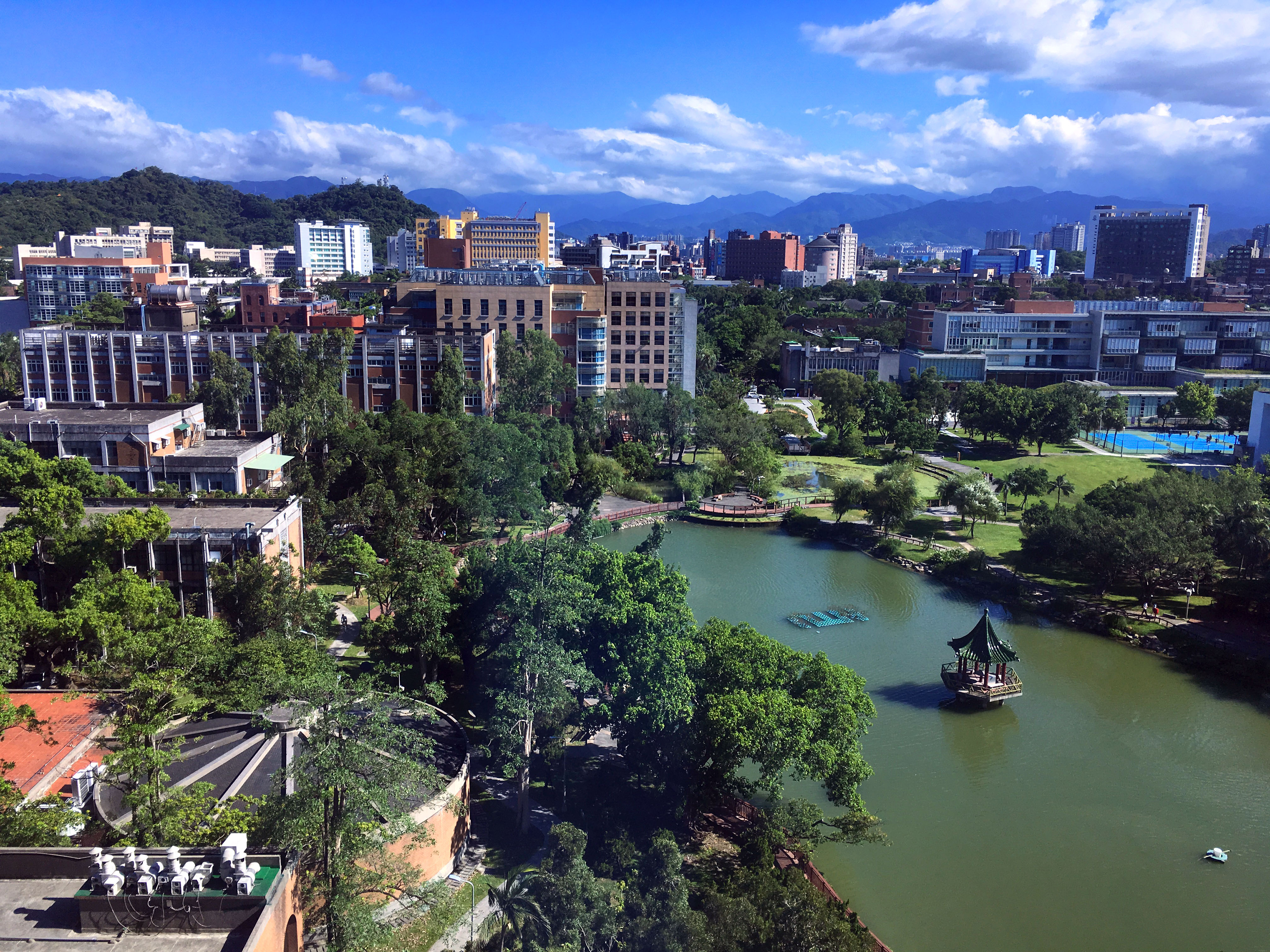 Druken Moon Lake, National Taiwan University.